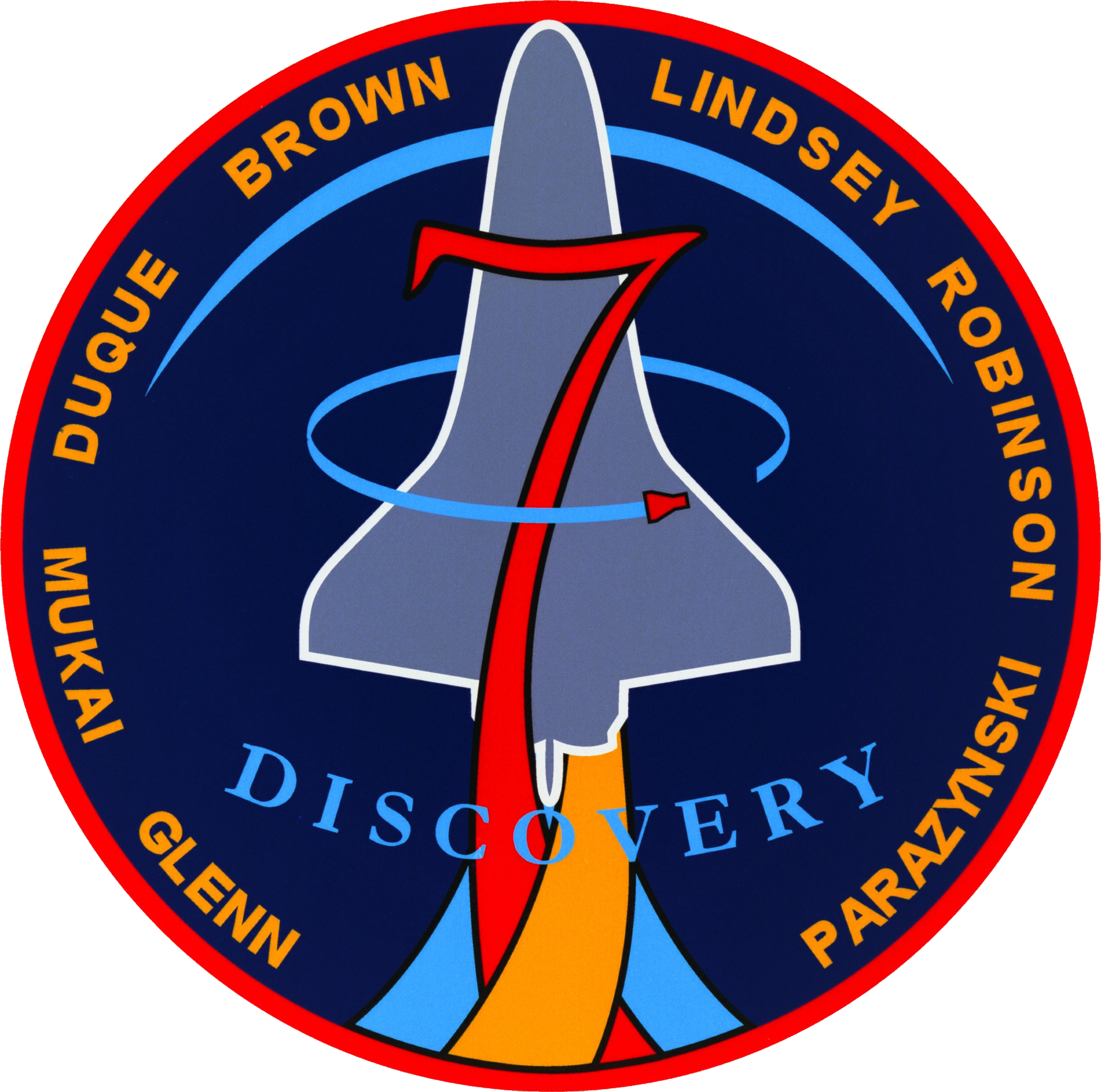 The STS-95 patch, designed by the crew, is intended to reflect the scientific, engineering, and historic elements of the mission. The Space Shuttle Discovery is shown rising over the sunlit Earth limb, representing the global benefits of the mission science and the solar science objectives of the Spartan Satellite. The bold number '7' signifies the seven members of Discovery's crew and also represents a historical link to the original seven Mercury astronauts. The STS-95 crew member John Glenn's first orbital flight is represnted by the Friendship 7 capsule. The rocket plumes symbolize the three major fields of science represented by the mission payloads: microgravity material science, medical research for humans on Earth and in space, and astronomy.